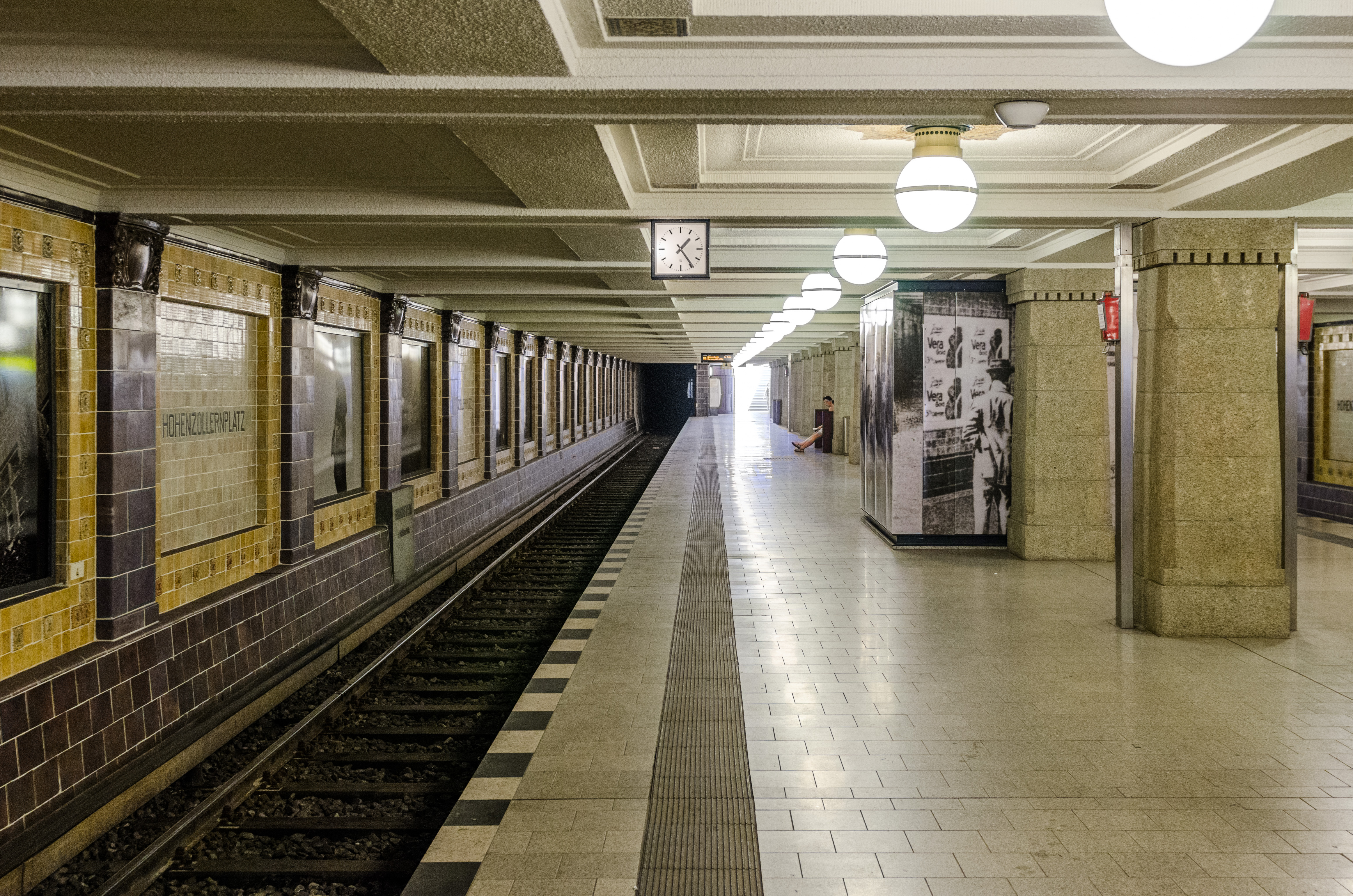 The platform of the Berlin subway station Hohenzollernplatz in Berlin-Wilmersdorf